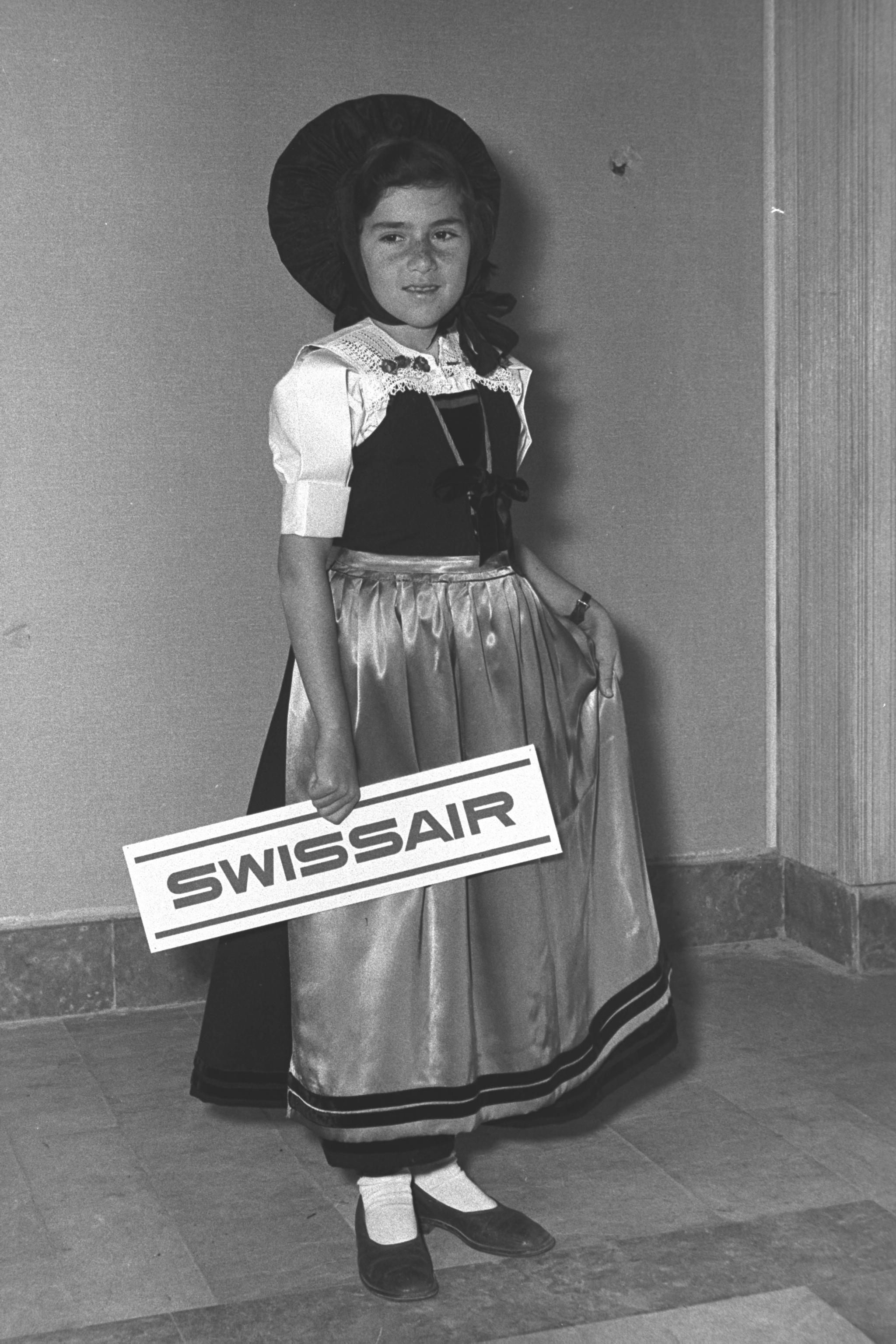 A fashion show at Beit America in Tel Aviv. In the photo, a girl poses in typical Swiss clothing. תצוגת אופנה בבית אמריקה בתל אביב. בתמונה: ילדה בלבוש שוויצרי טיפוסי Photo: Hans Pinn (1916–1978) Alternative names הנס פין; פין, חיים; פין, הנס; פין, ה. חיים; Hans Chaim Pinn; Pinn, Hans H; Pinn, H. Hayim; Pin, H. Ḥayim; Fin, H. Ḥayim; Hans H. Pinn; H. Ḥayim Pin; Piyn, Ḥayyim; Pinn, ChaimDescriptionIsraeli photographerDate of birth/death 16 November 1916 30 May 1978 / 13 May 1978Location of birth/death Berlin HerzliyaAuthority control : Q16129161 VIAF: 51249035 ISNI: 0000 0001 1234 9240 ULAN: 500479725 LCCN: no90017900 Open Library: OL6752235A WorldCat creator QS:P170,Q16129161 , 02/25/1953